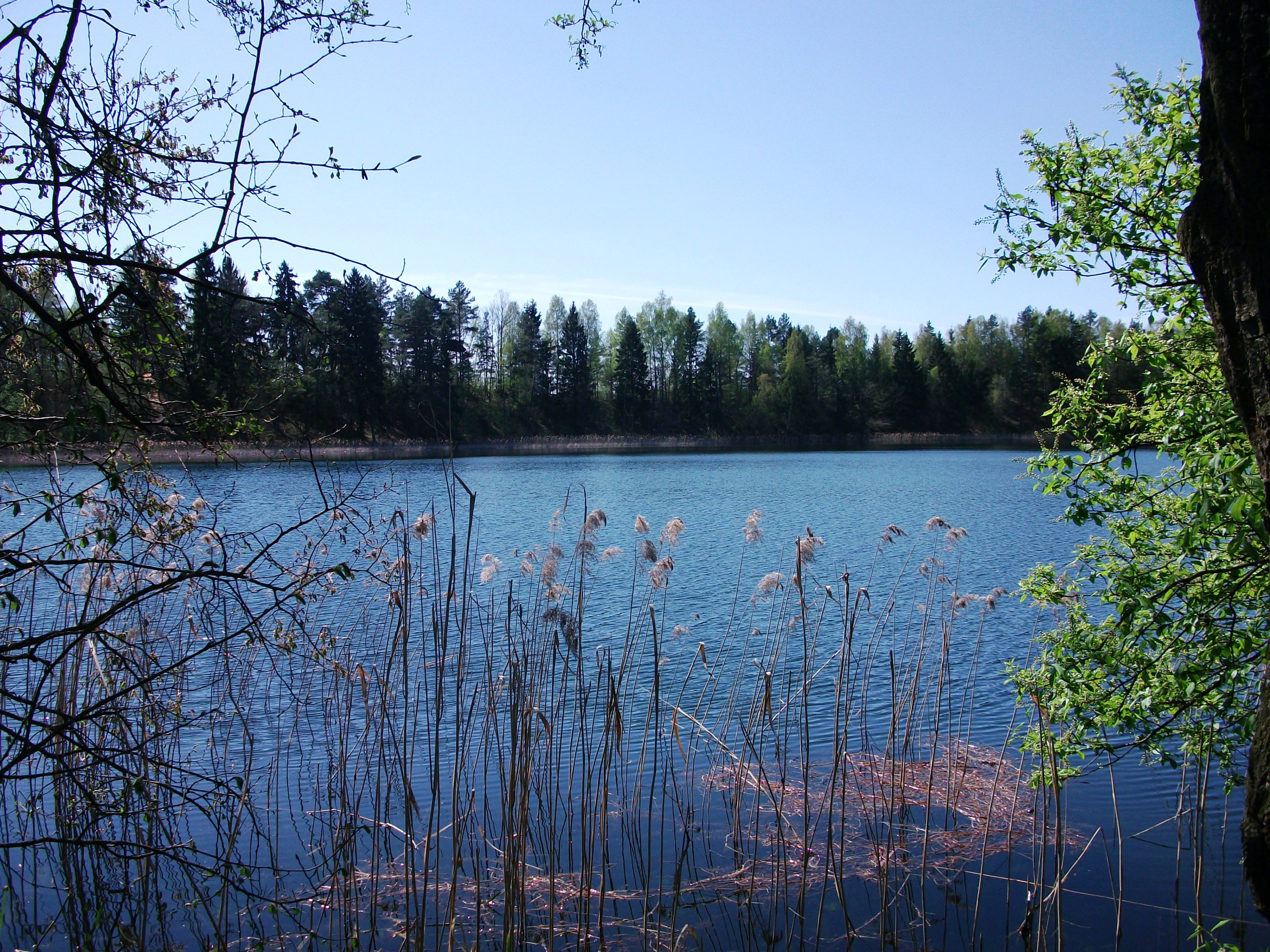 Gulbeza Lake, Astraviec district, Belarus